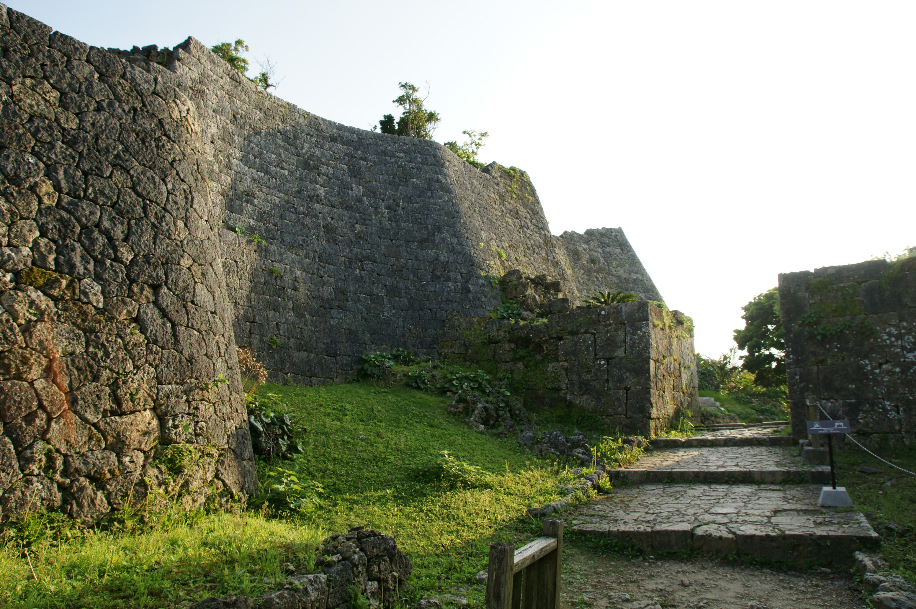 Nakagusuku Castle in Kitanakagusuku and Nakagusuku, Okinawa prefecture, Japan.